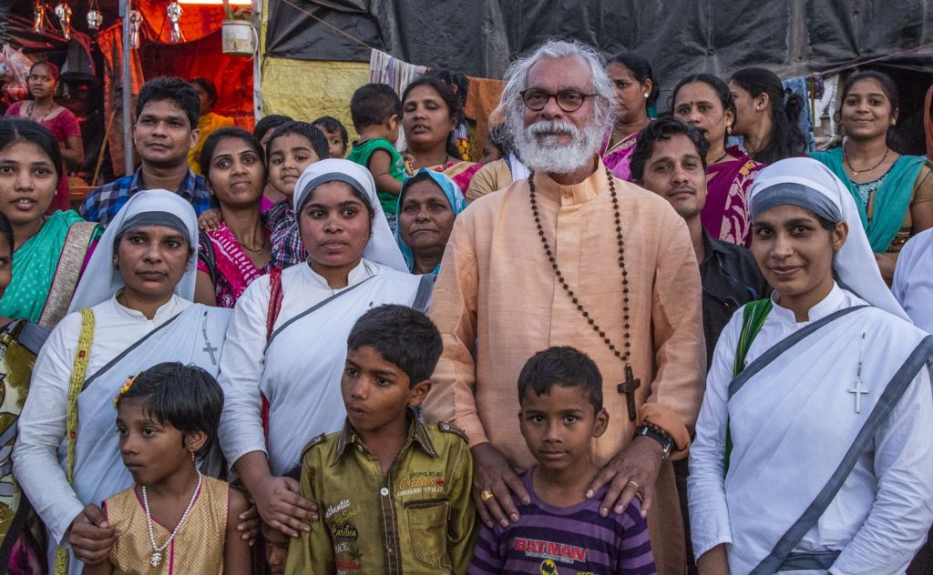 Dr. K.P. Yohannan visits a slum in Asia